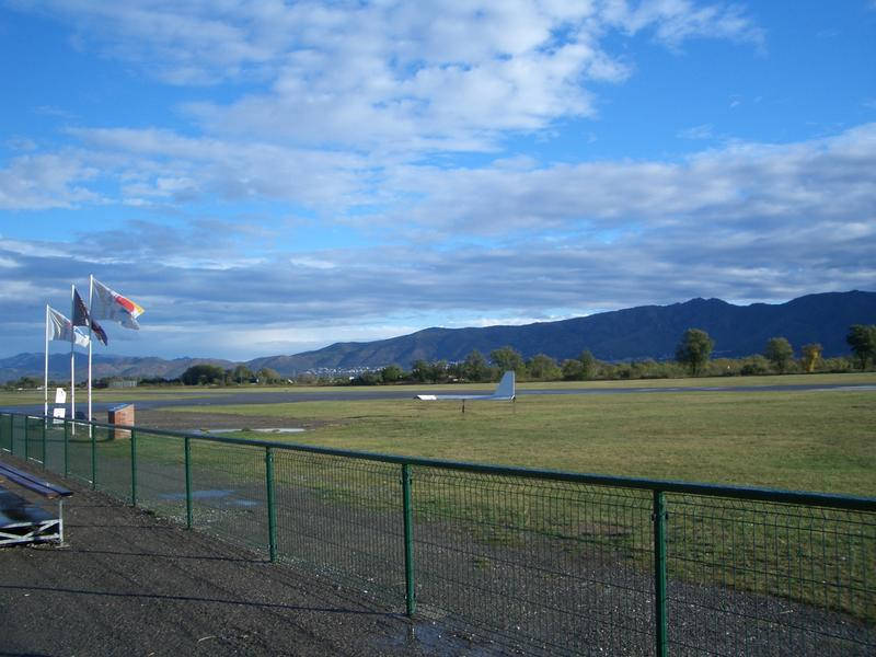 Skydiving drop zone in Empuriabrava, Catalonia. Said to be the busiest in Europe. Pictured dated 2004-10-31 07:48 UTC Taken by Wsx